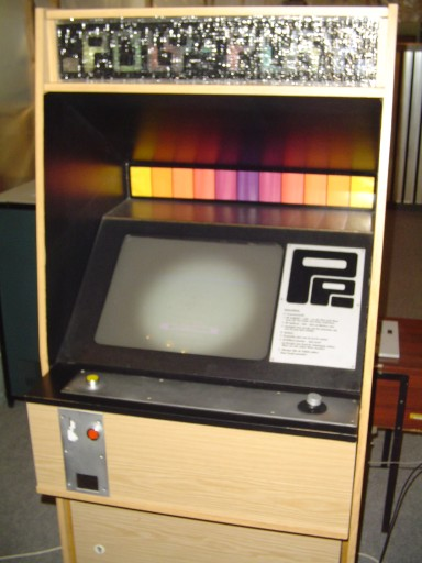 Source: own recorded in Technische Sammlungen der Stadt Dresden (with photo permission)